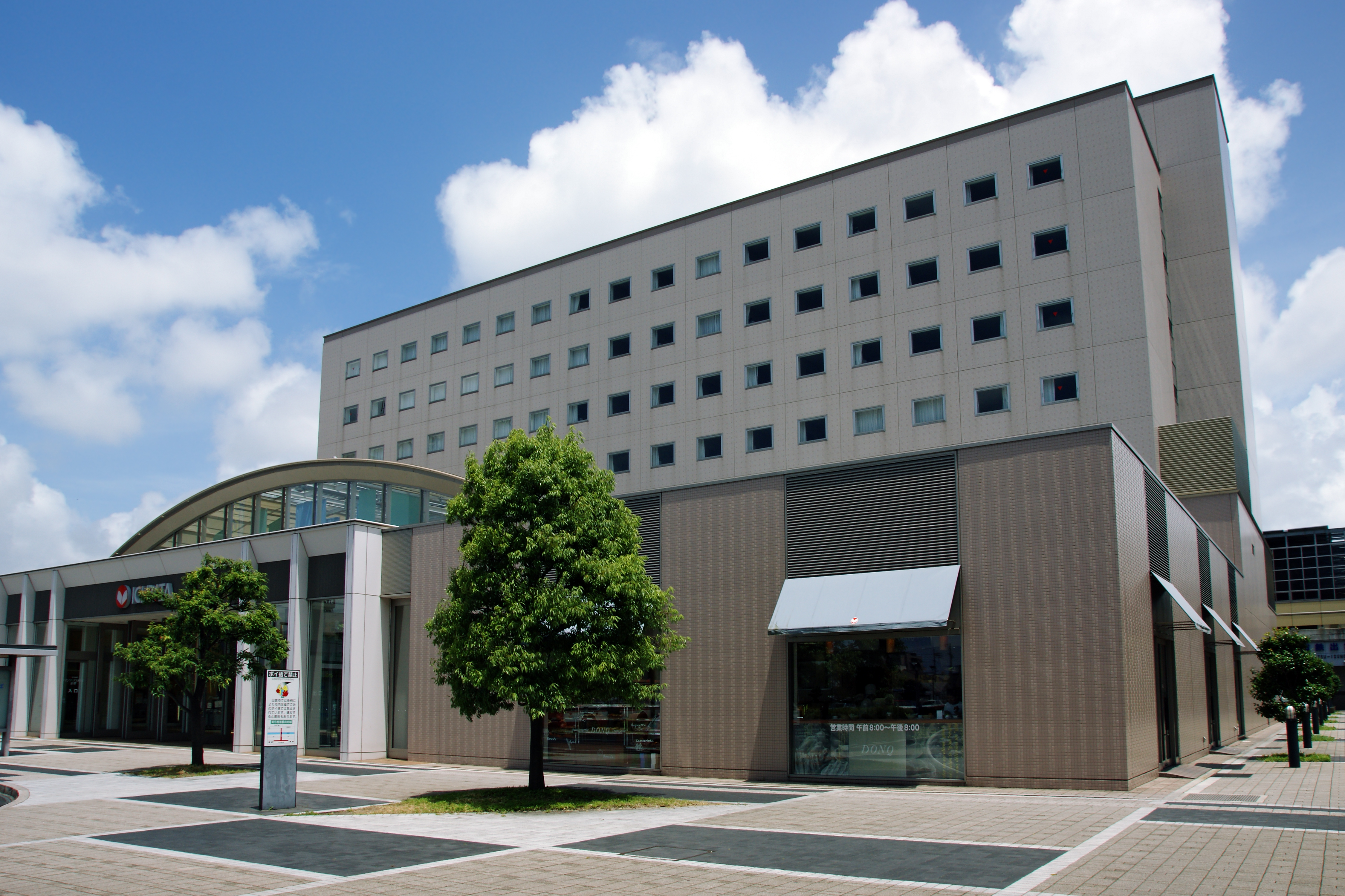 Twin Leaves Hotel Izumo in Izumo, Shimane prefecture, Japan